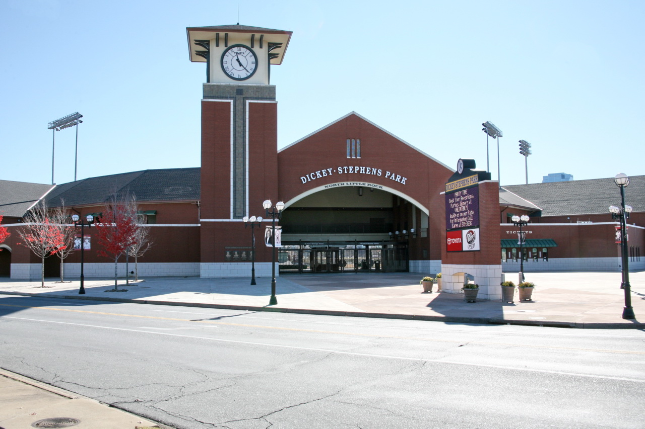 In 2005, North Little Rock voters approved a two-year, one-percent sales tax for construction of the Dickey-Stephens baseball stadium on land adjacent to the Broadway Bridge. In 2007, it became the home of the Arkansas Travelers minor league baseball team affiliate of the MLB Anaheim Angels.